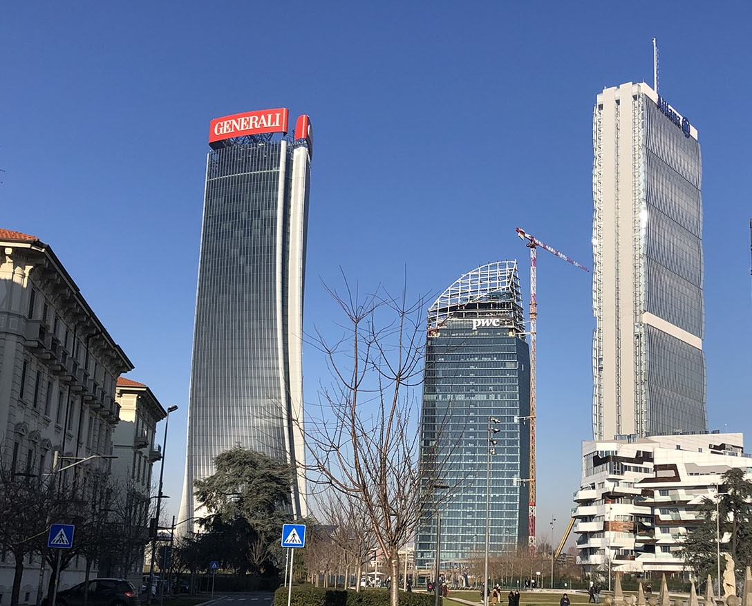 Citylife of Milan